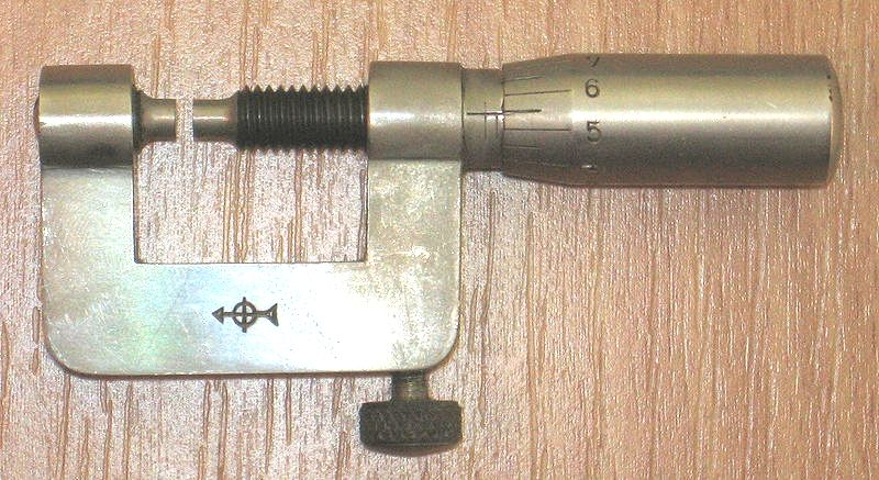 Small external micrometer, dimension ~1,55 mm